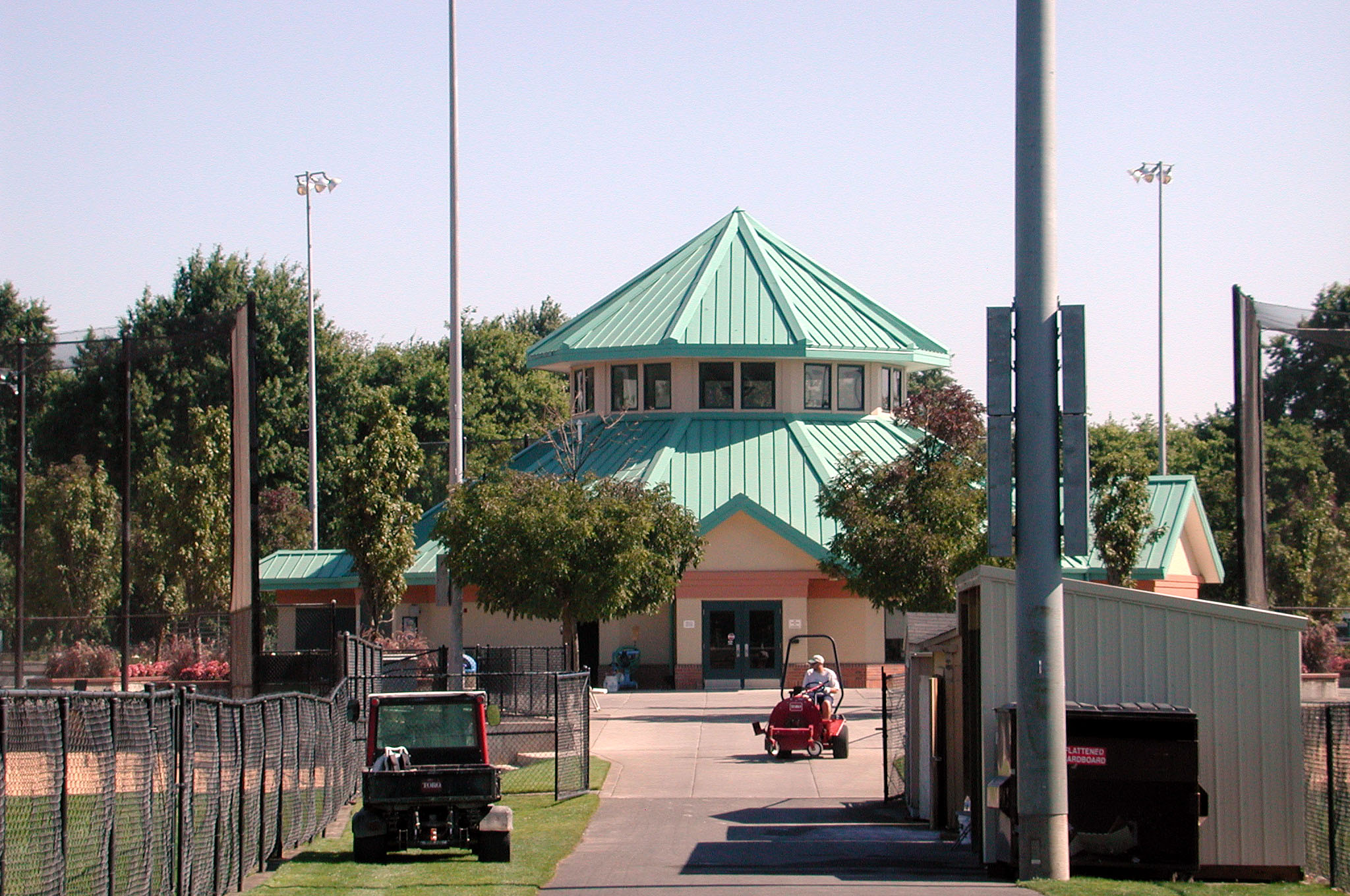 William V. Owens Sports Complex in East Delta Park, Portland, Oregon